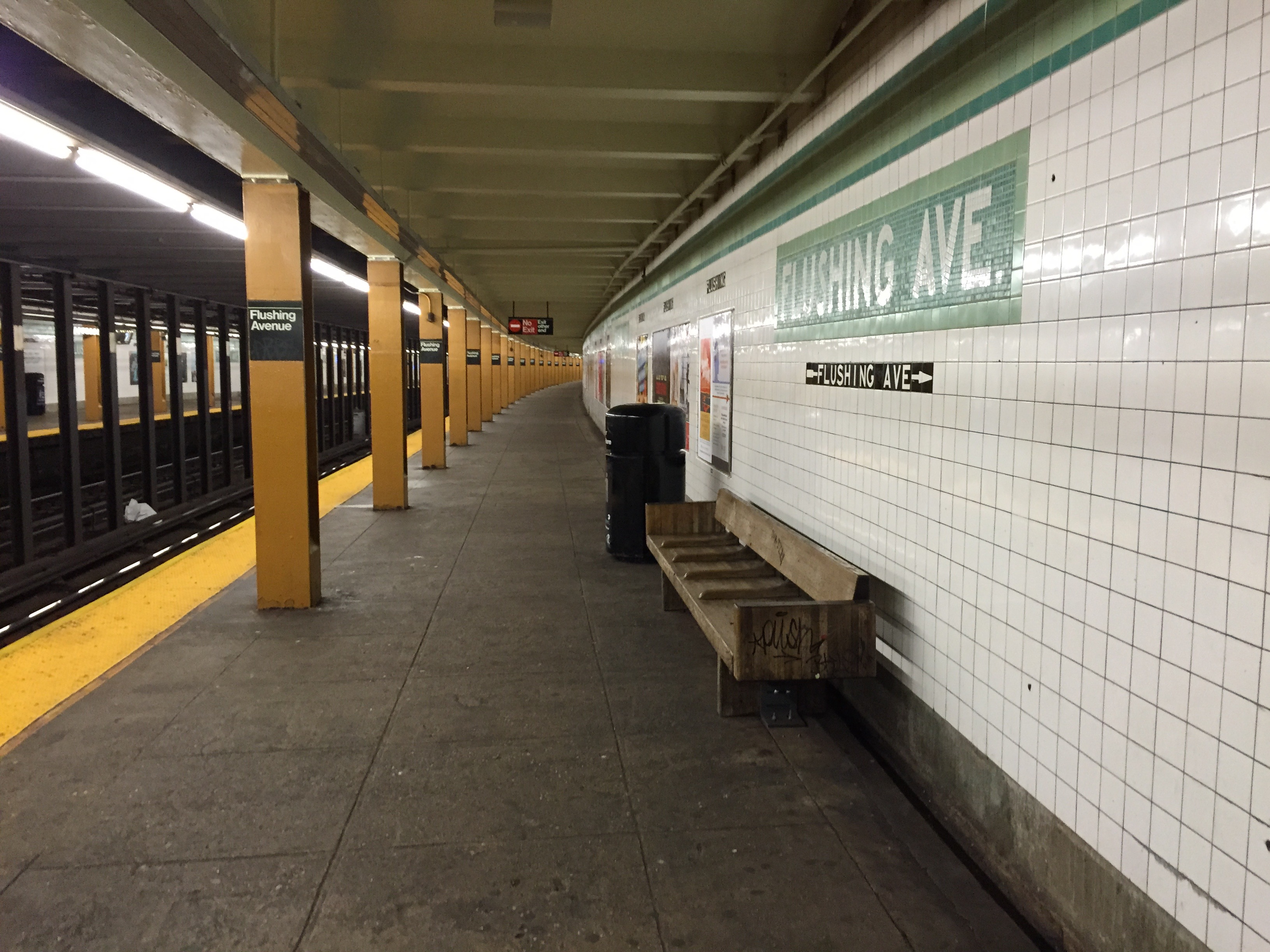 Queens bound platform at the Flushing Avenue G station.